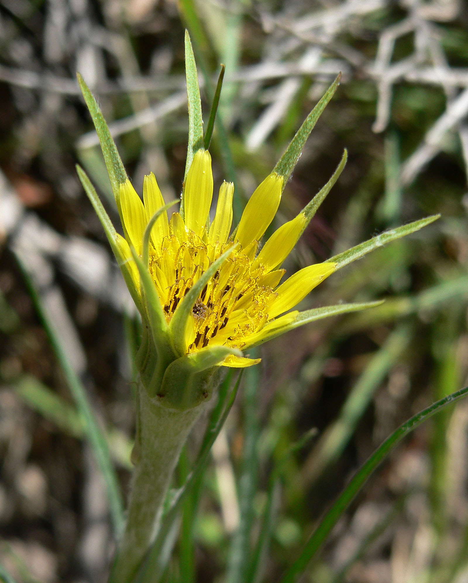 Tragopogon dubius in Kyle Canyon alongside route 157 in the Mount Charleston community, Spring Mountains, southern Nevada (elev. about 2200 m)